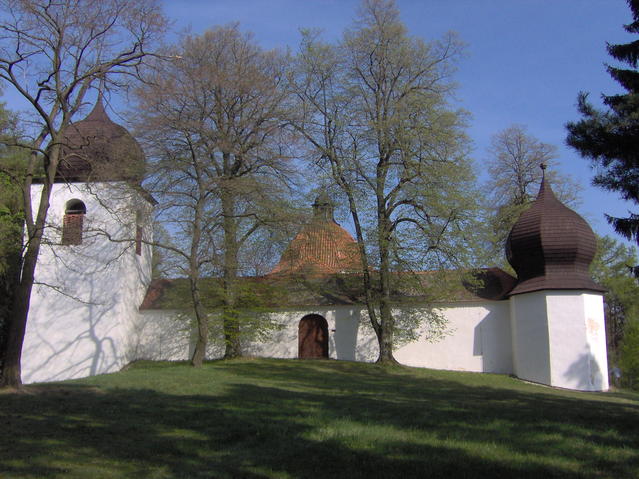 Church of saint Anna, Kraselov, Strakonice District, Czech republic